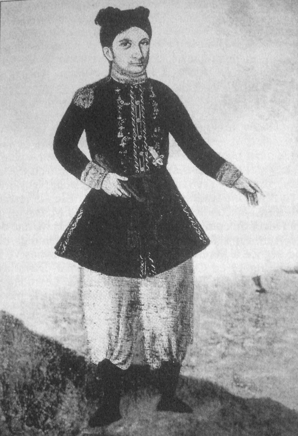 Jean-Baptiste_Chaigneau_1805